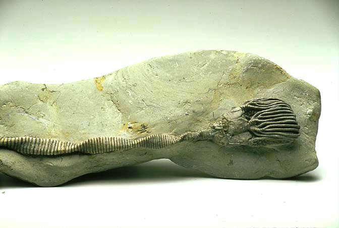 A Crinoid fossil in the permanent collection of The Children’s Museum of Indianapolis